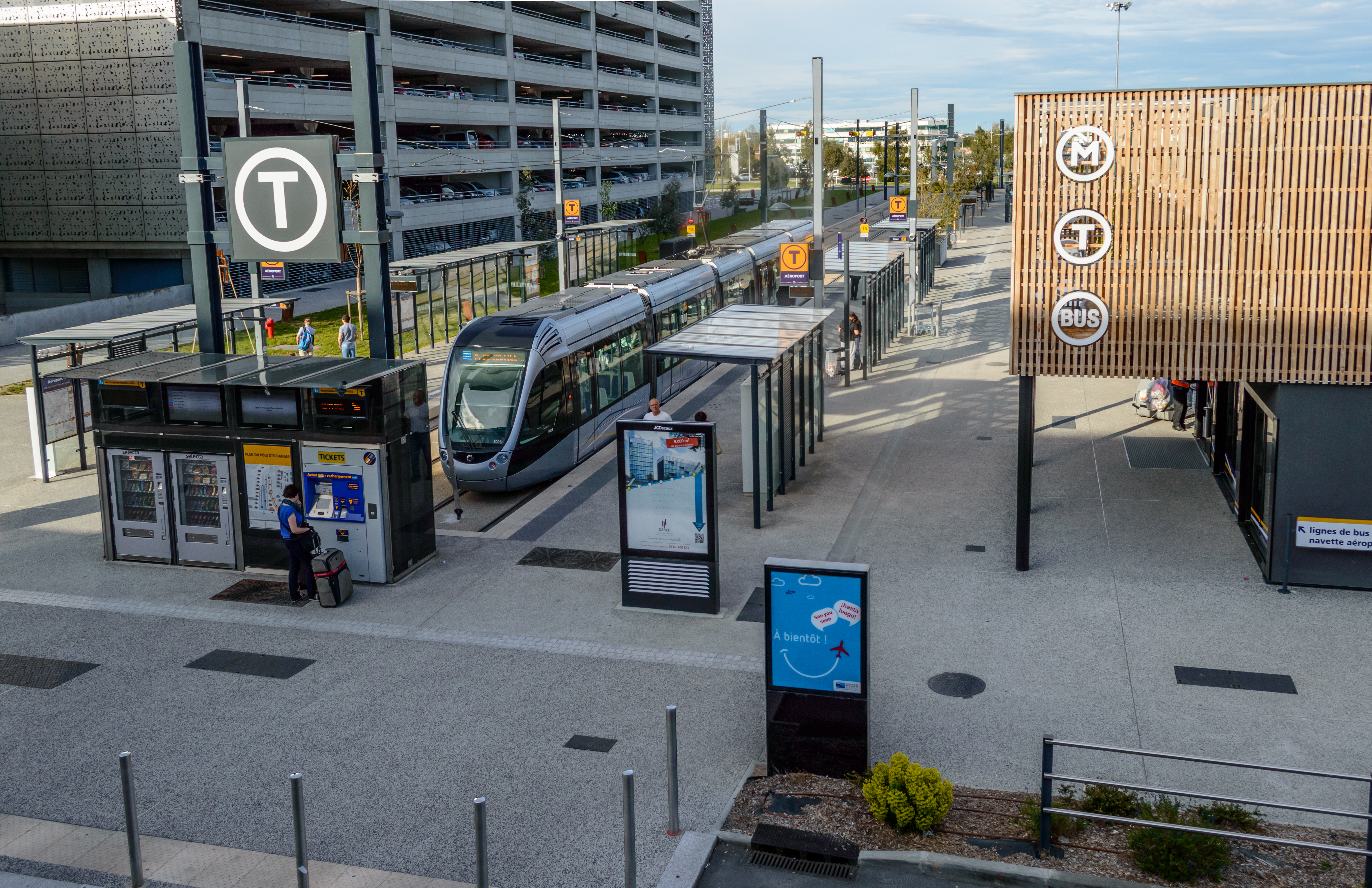 "Aéroport" station of Tram Line T2 in Toulouse.